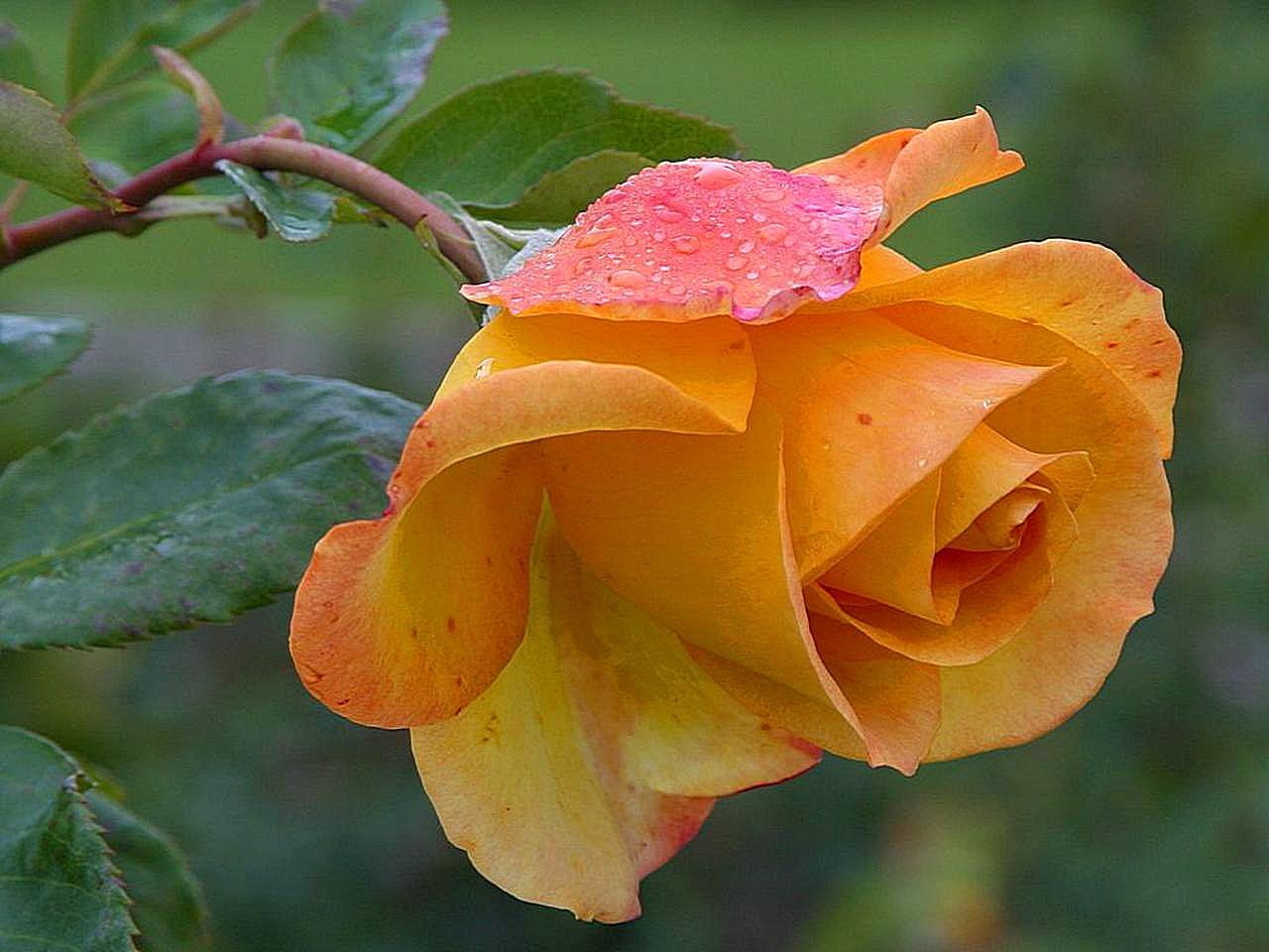 Image title: Yellow roses dew petals Image from Public domain images website